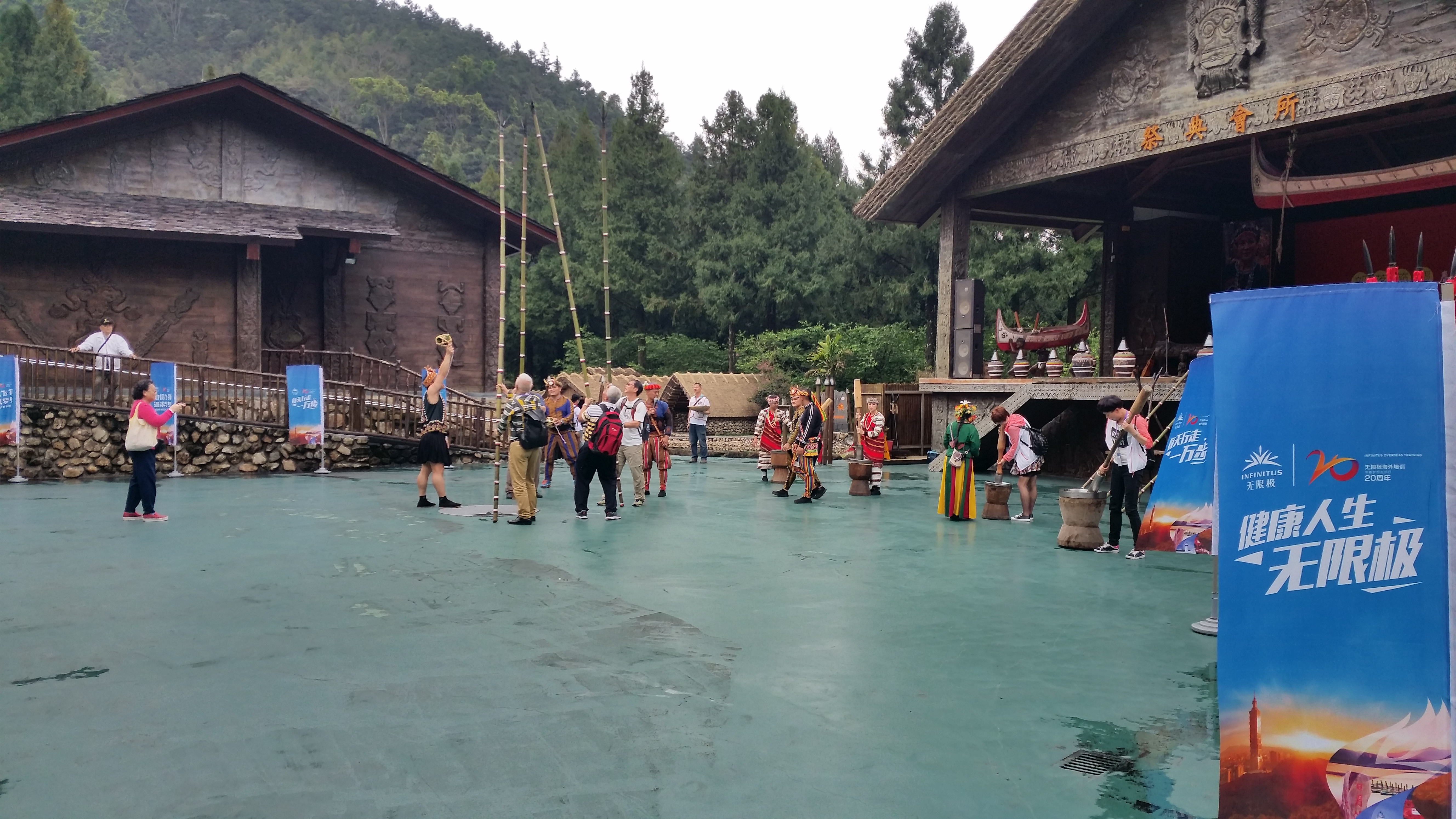 Tourists At Formosan Aboriginal Culture Village, Taiwan